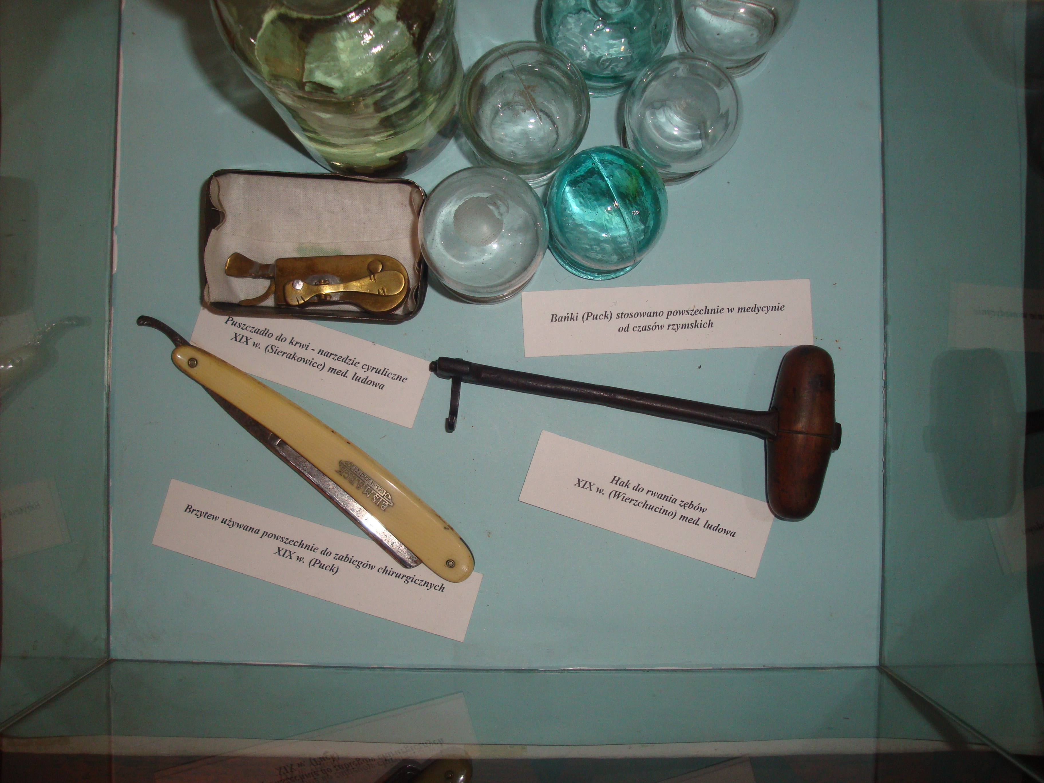 The Florian Ceynowa Museum of the Puck Region in Puck. Ancient medical tools. Razor, knife for bloodletting, hook for tooth extraction, cups for fire cupping